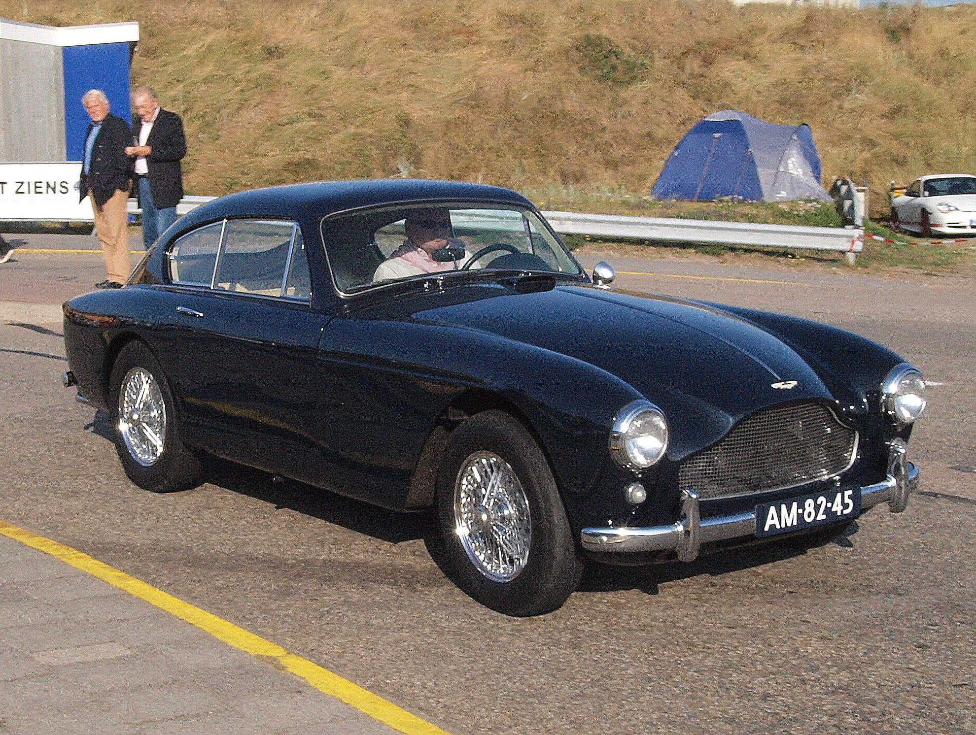 Photographed at the Nationaal Oldtimer Festival Zandvoort 2009, The Netherlands. OLYMPUS DIGITAL CAMERA